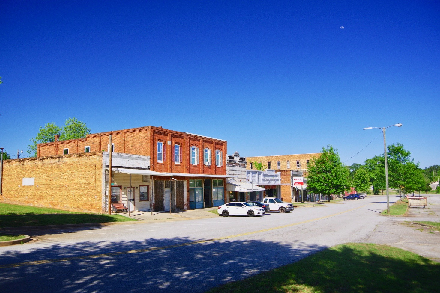 Businesses along North Avenue in Comer, Georgia, United States